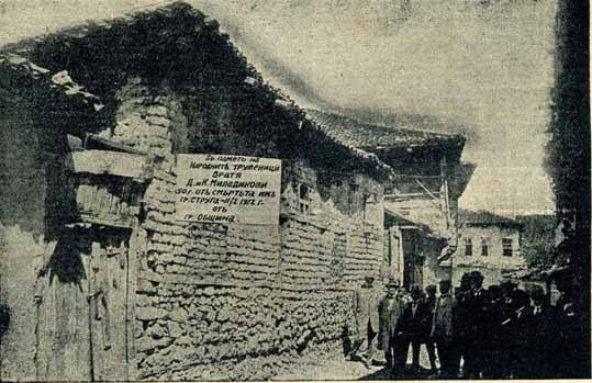 Miladinovi Brothers House 11 Jan 1912